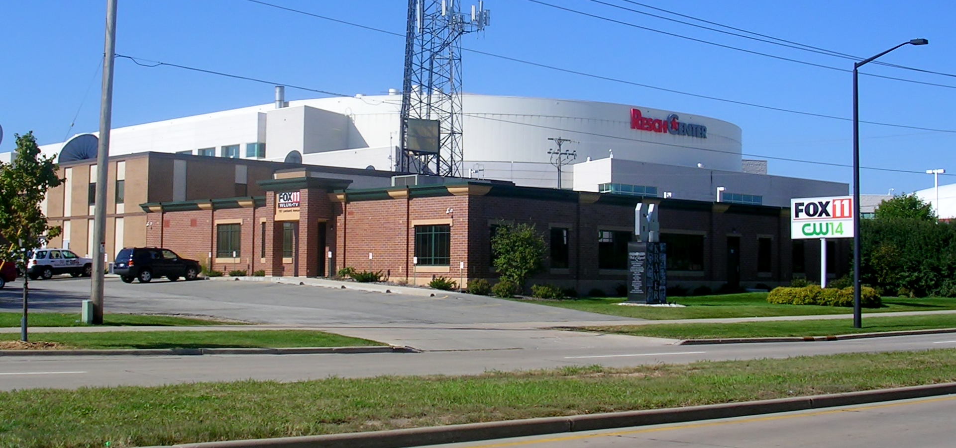 The studios of Green Bay, Wisconsin television stations WLUK-TV and WCWF, located on Lombardi Avenue on Green Bay's Southwest side.